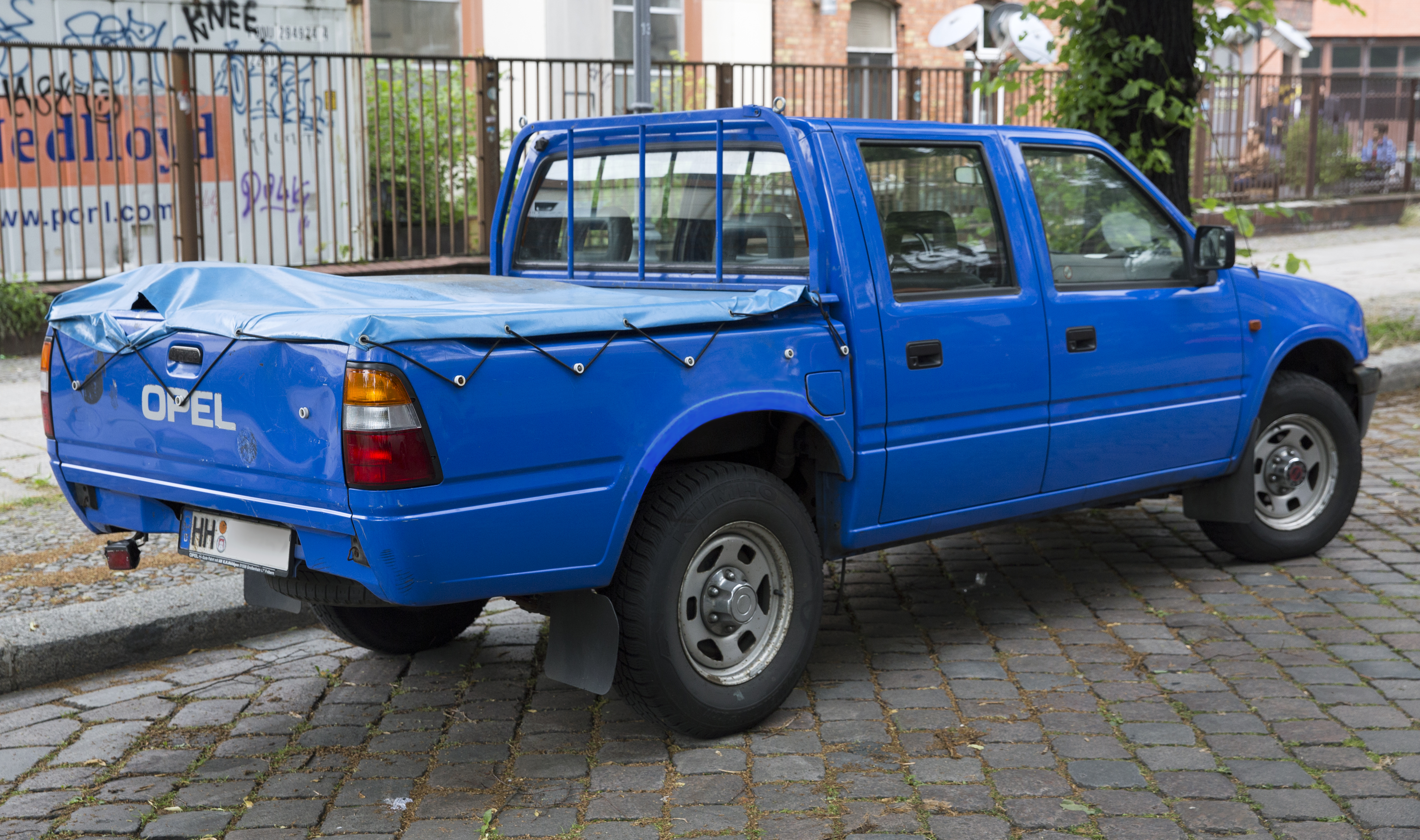 A 1997-2001 Opel Campo 4x4 Crew Cab in Berlin (in spite of Hamburg registration).